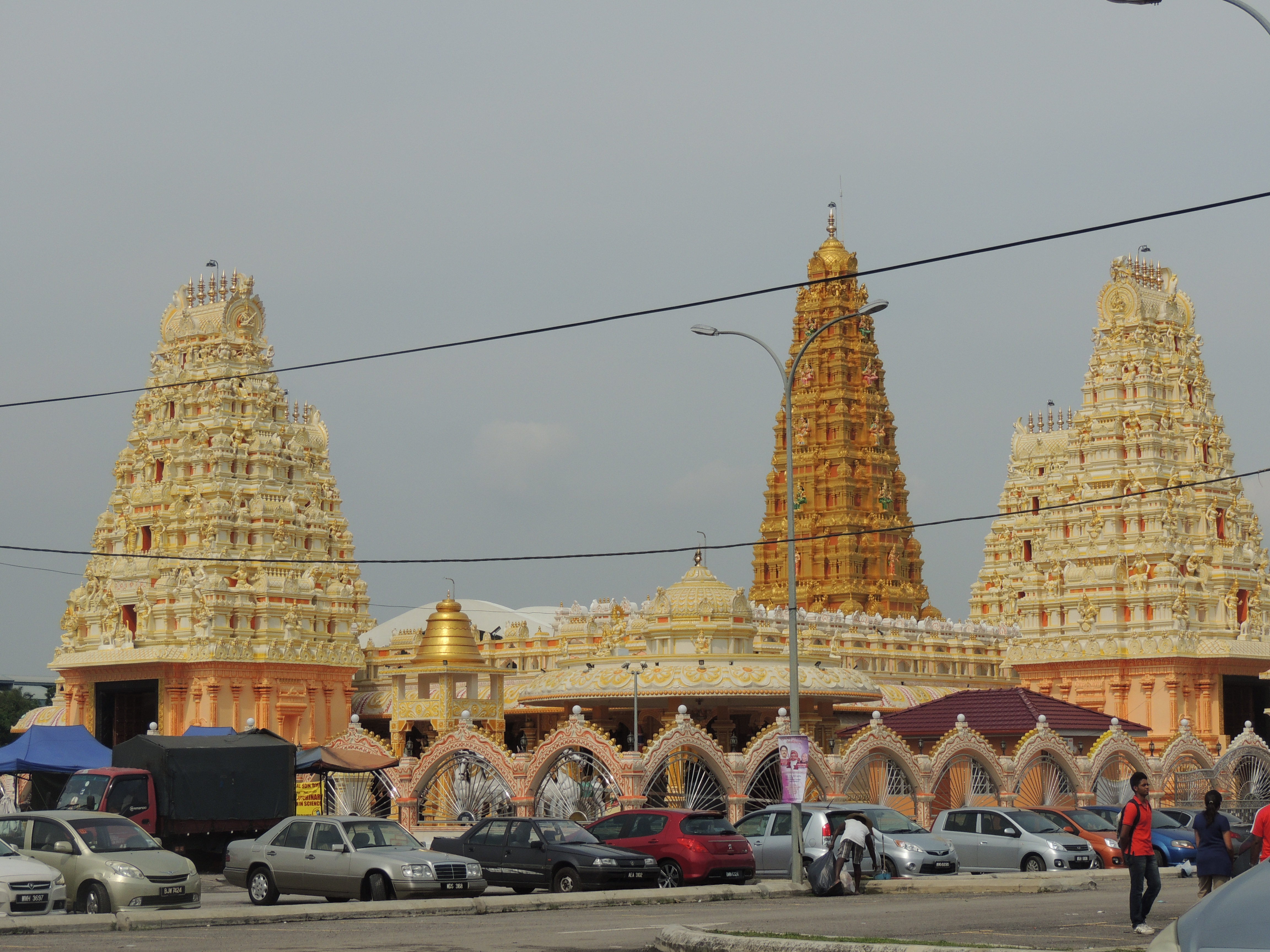 temple